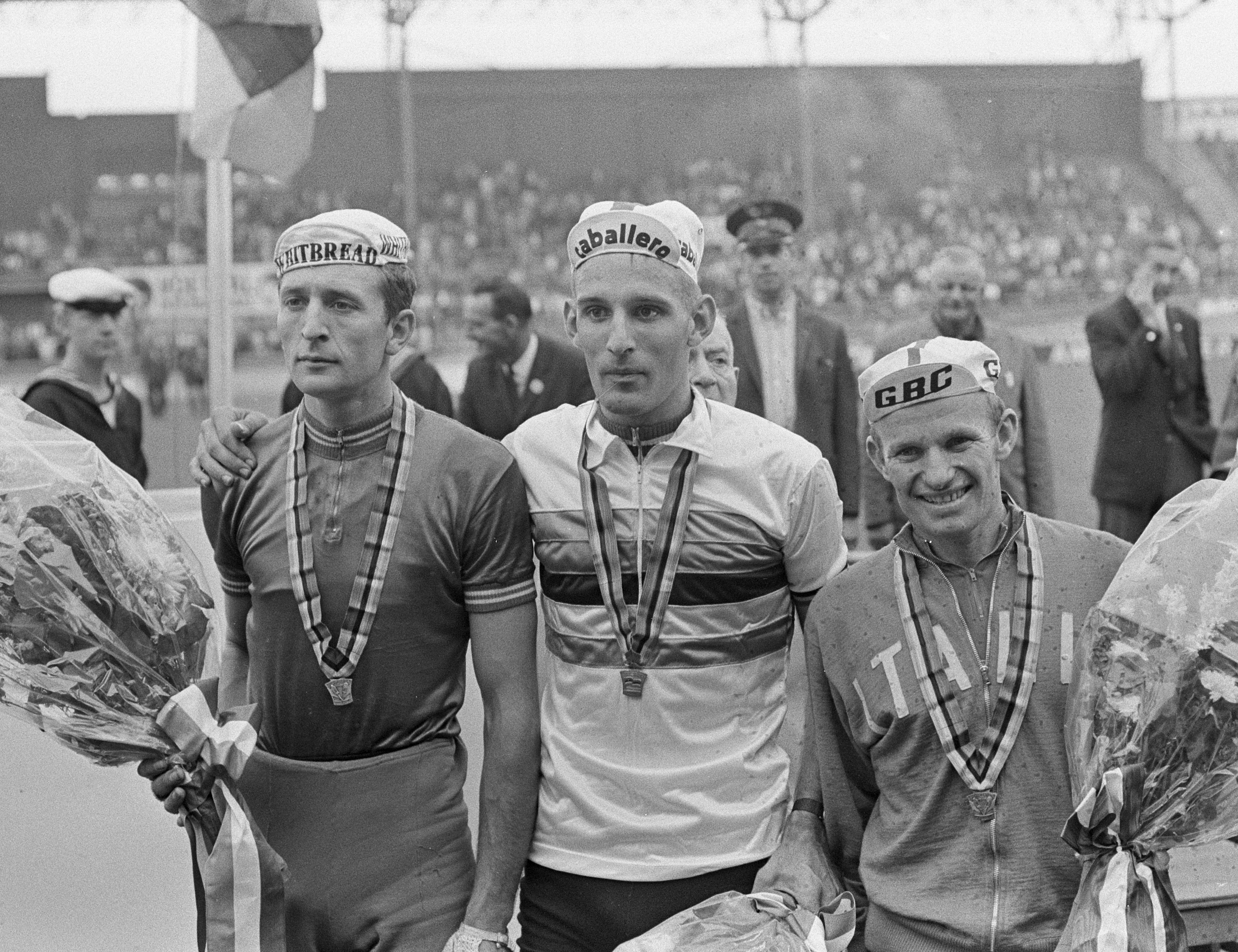 WK Wielrennen op de baan Amsterdam. Ceremonie Tiemen Groen